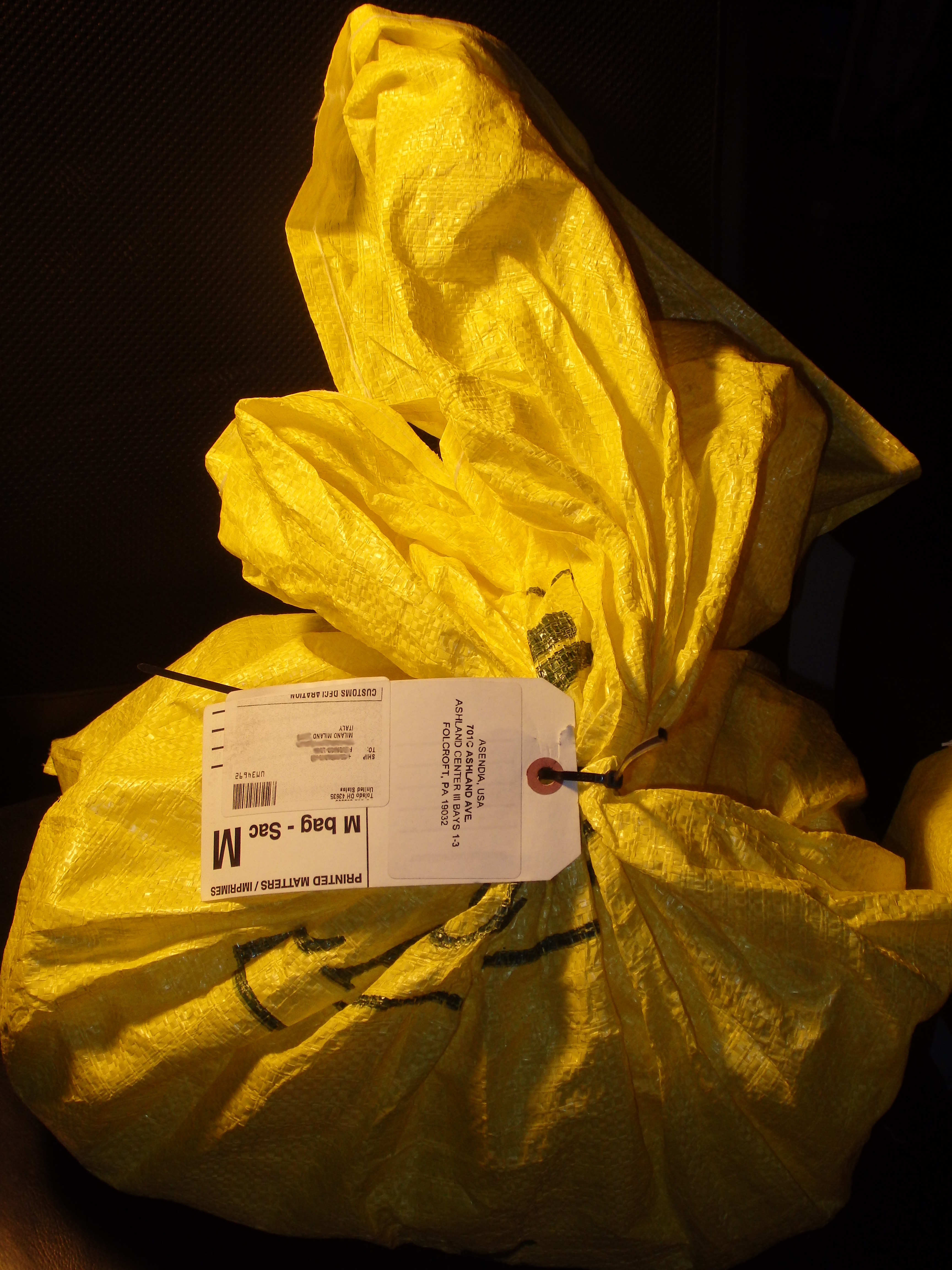 M-bag for transatlantic delivery of a books parcel. Bag by Asendia/La poste.